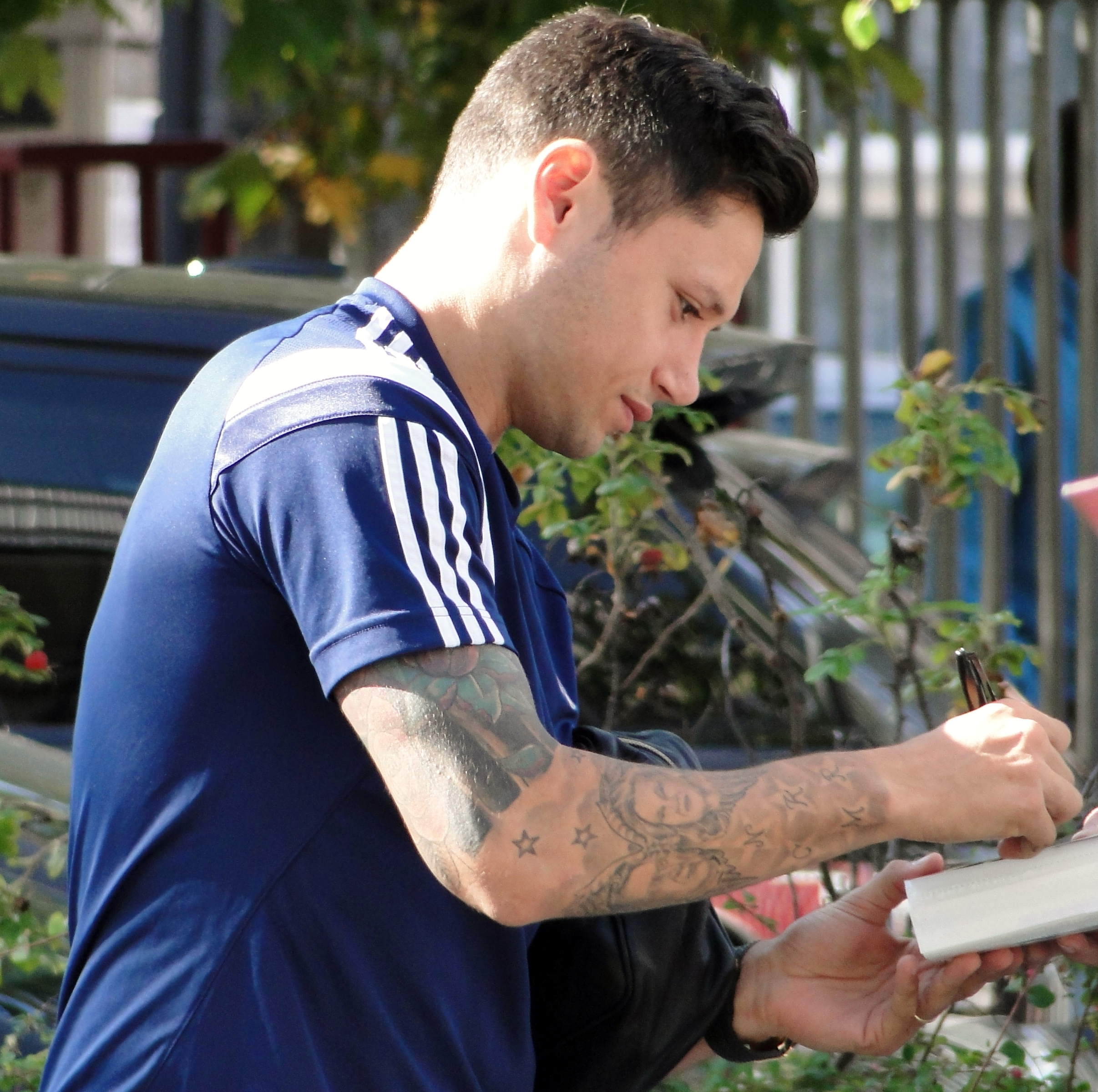 West Ham United player, Mauro Zarate signing autographs at the Boleyn Ground before their Premier League victory against Queens Park Rangers.